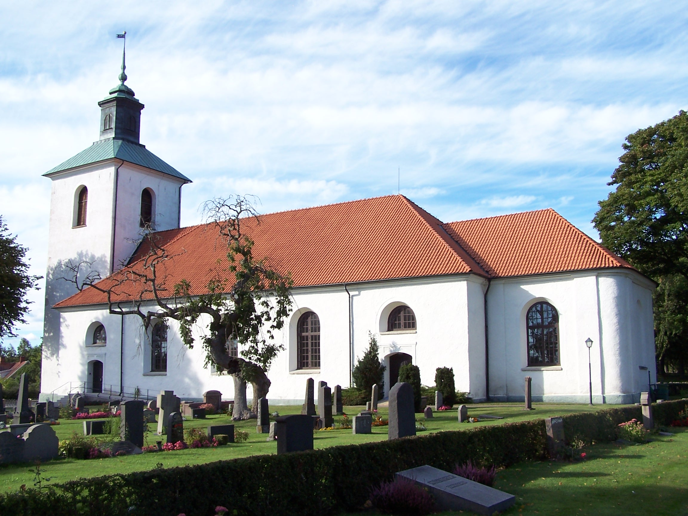 Söderåkra church, Sweden - Exterior